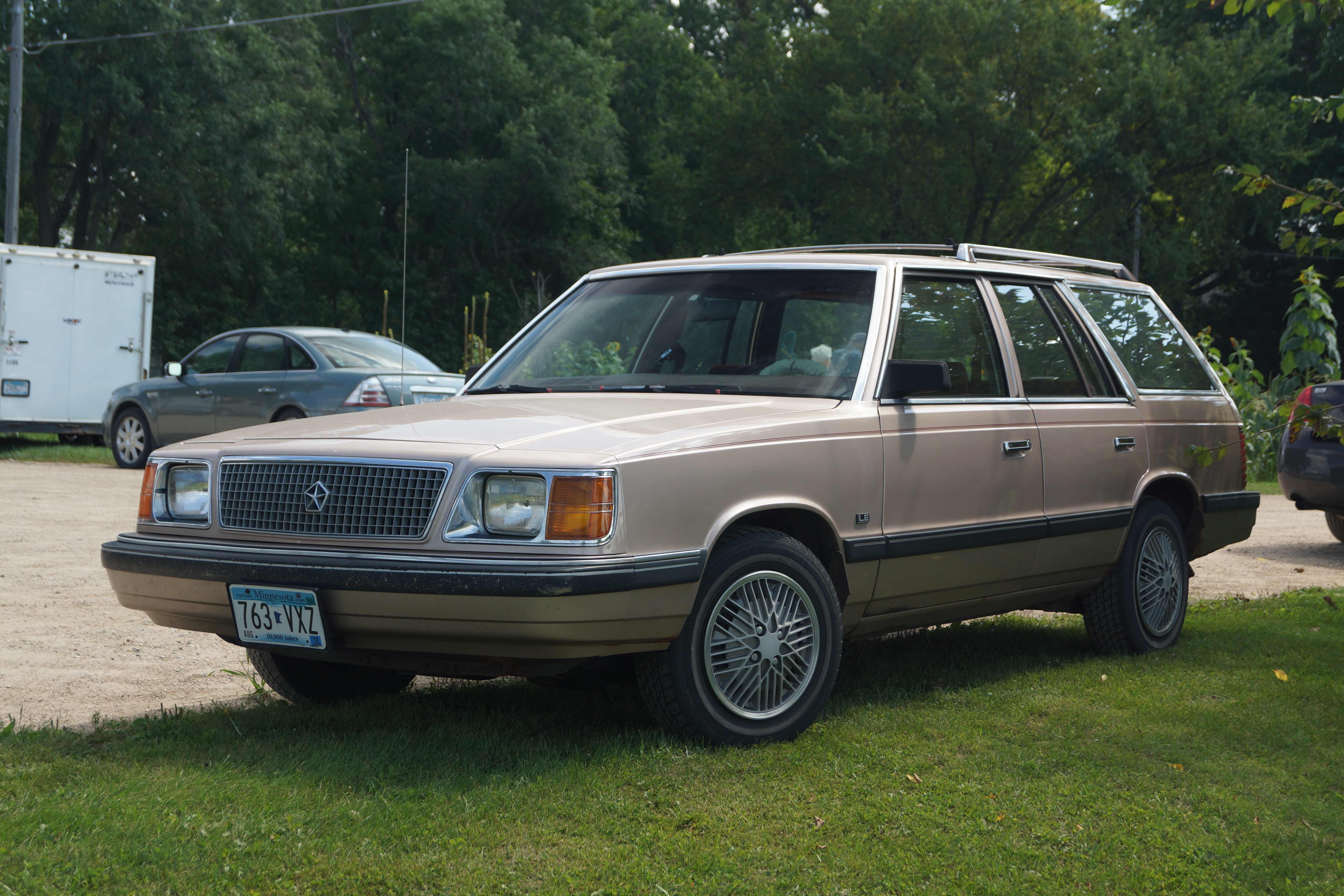 Sunburg Trolls 9th Annual Classic Car Show & Swap Sunburg Community Center Sunburg, Minnesota September 2017